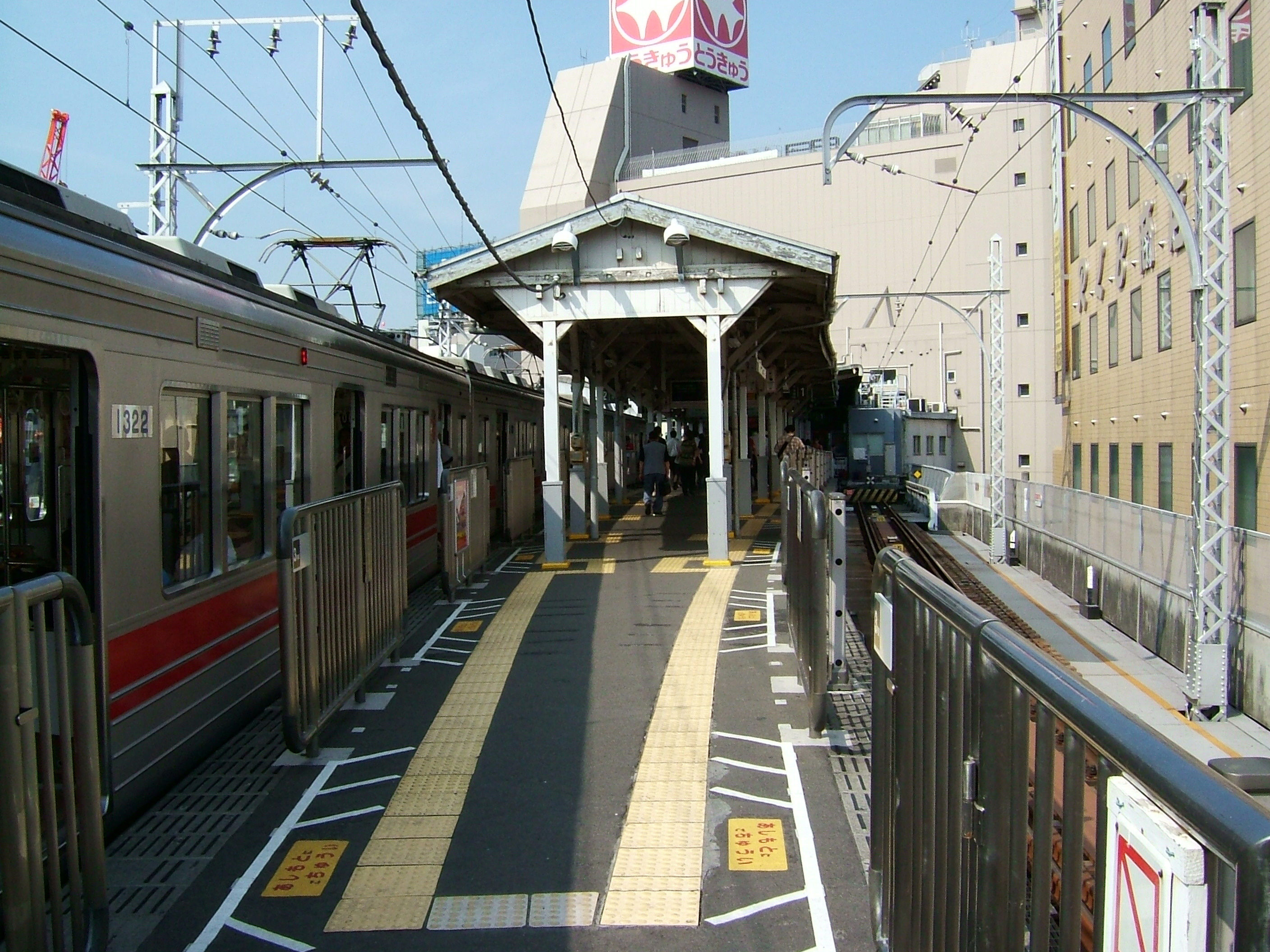 The platform at Gotanda Station, Tokyu Ikegami Line